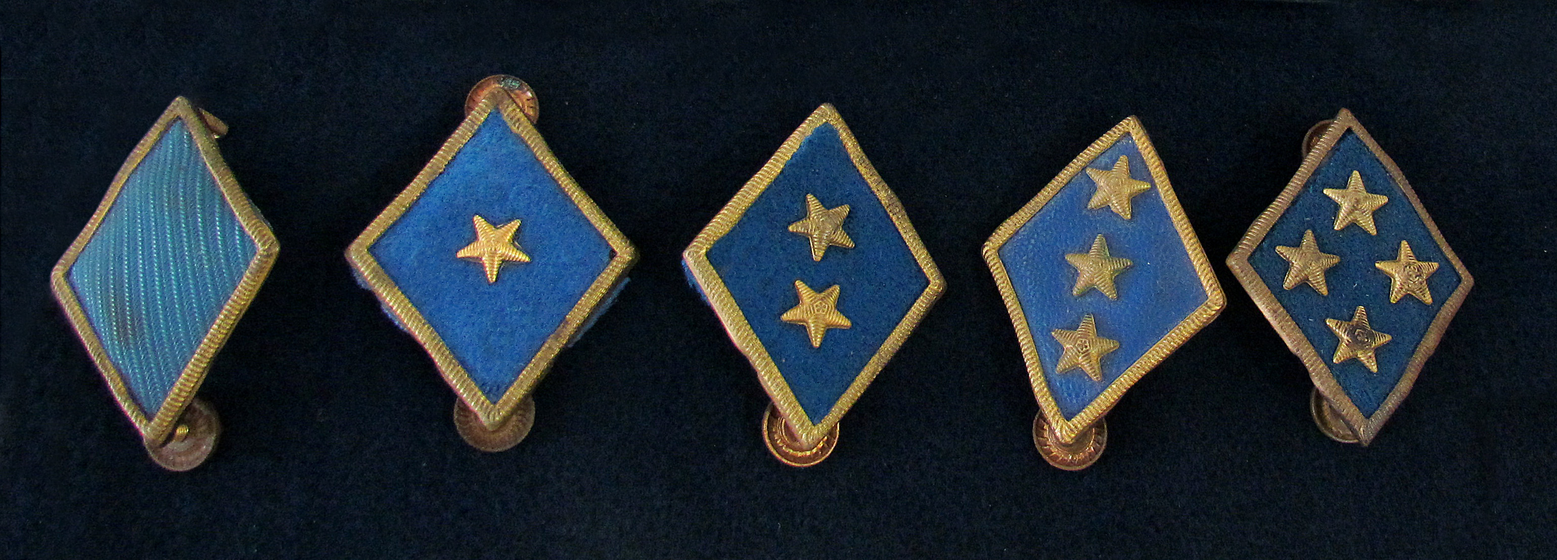 Police rank insignia of Yugoslavia